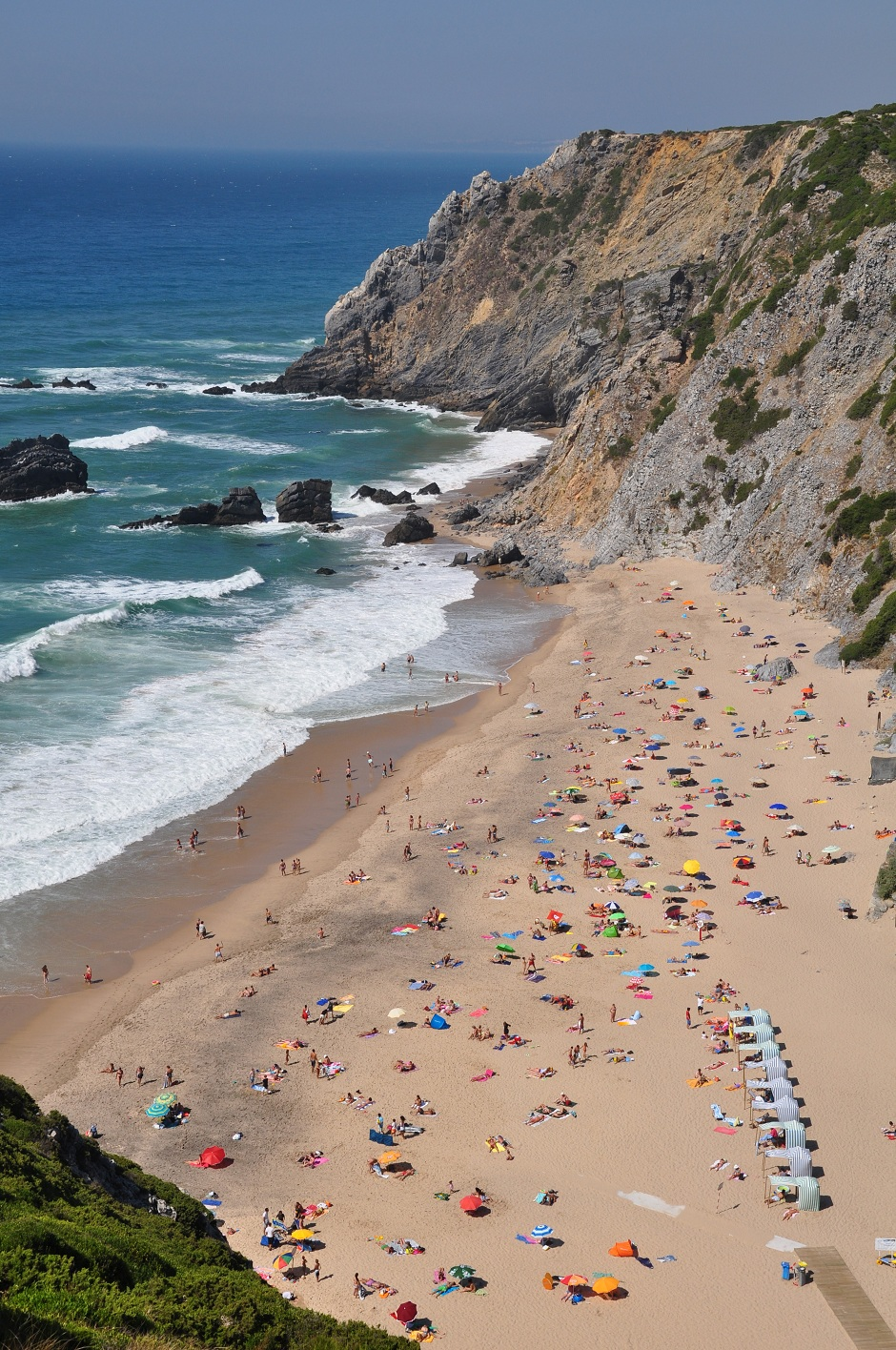 Praia da Adraga (Adraga beach) on the Atlantic coast at Almoçageme (Portugal, Estremadura, Municipality of Sintra, Freguesia Colares).